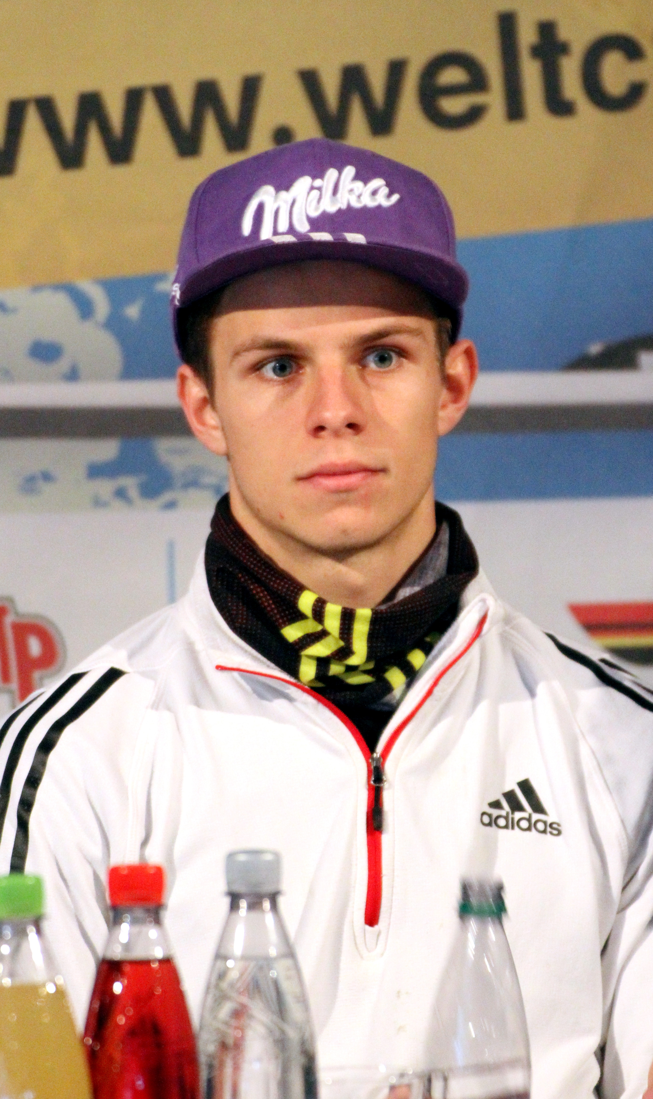 FIS Ski Jumping Summer Grand Prix Klingenthal 2017 on 2017-10-03 Andreas Wellinger